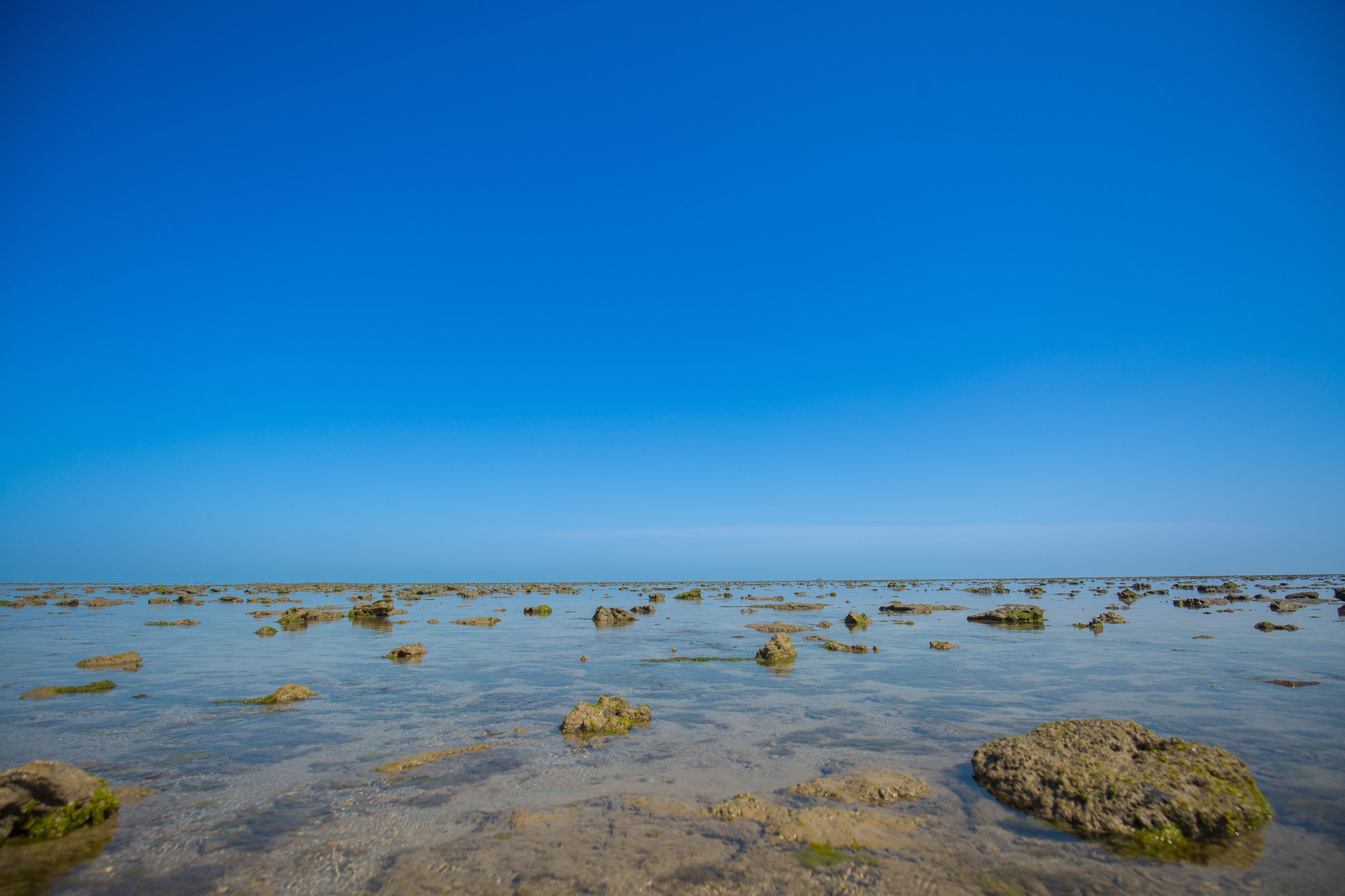 During Low Tide, the ocean falls back miles and the sea bed becomes exposed.